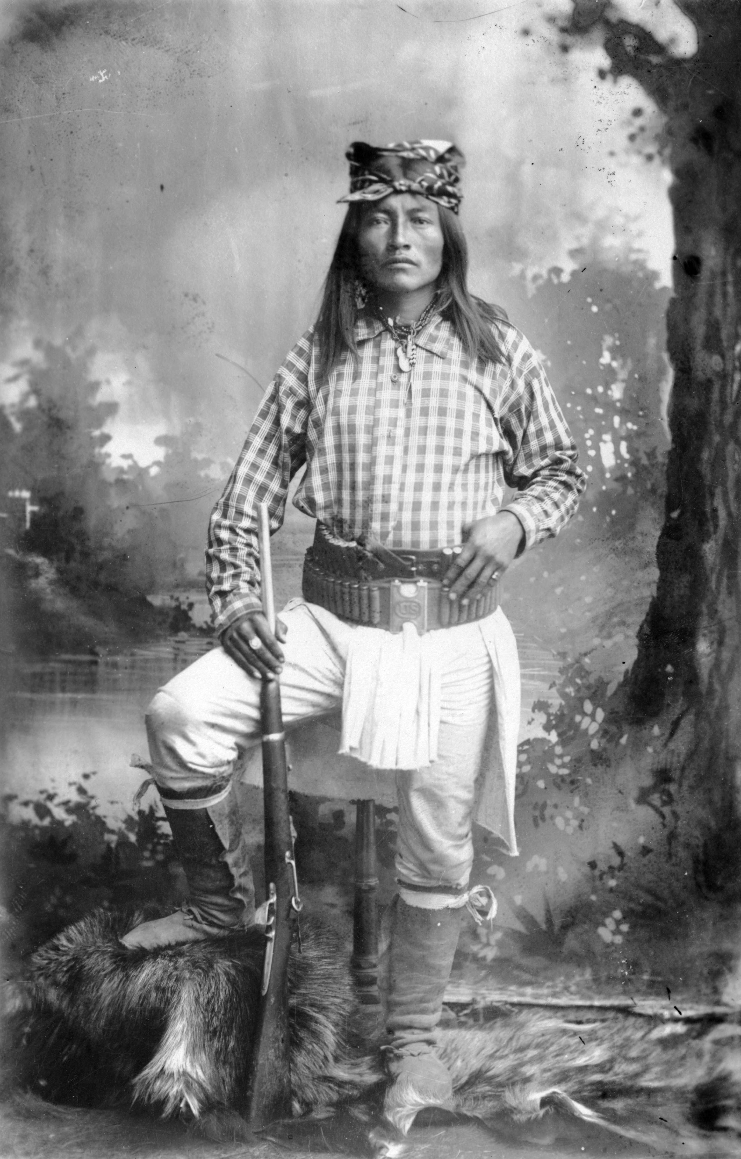 Studio portrait (standing) of Dutchy (Bakeitzogie [ Yellow Coyote]), a Native American (Chiricahua Apache) man. He holds a rifle and wears moccasin boots, a breechcloth, ammunition belt, and a kerchief on his head. Title and "one of the most notorious of the Chiricahuas; accused of numerous murders of white people. Negative made 1884-1885" hand-written on back of print.